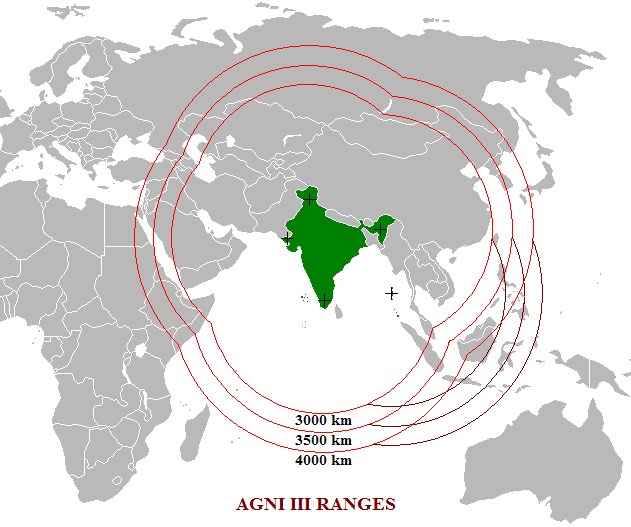 This is a map diagram showing indicative ranges for the Agni-III Missile. The range of the Agni III is 3000 km, and most probably has the capability of hitting targets over 4000 km. I created this diagram using :en:Image:BlankMap-World.png